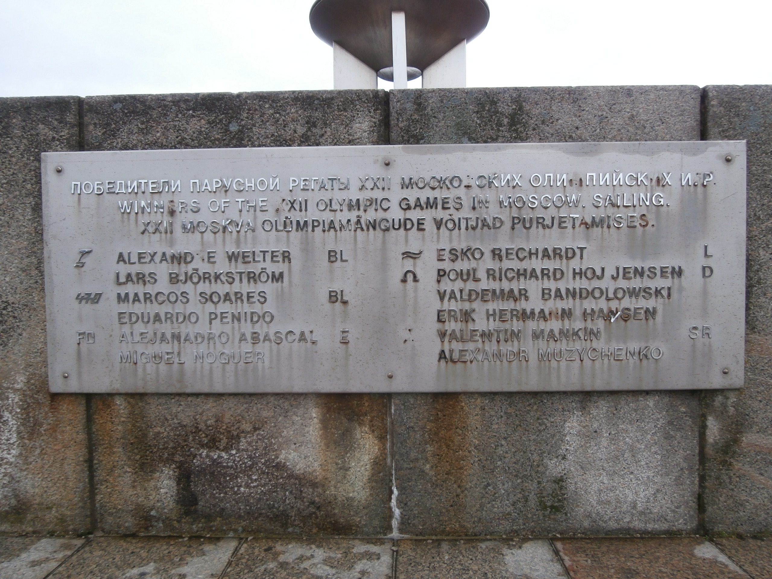 Winners of the XXII Olympic Games in Moscow. Sailing. Tallinn 23 February 2015